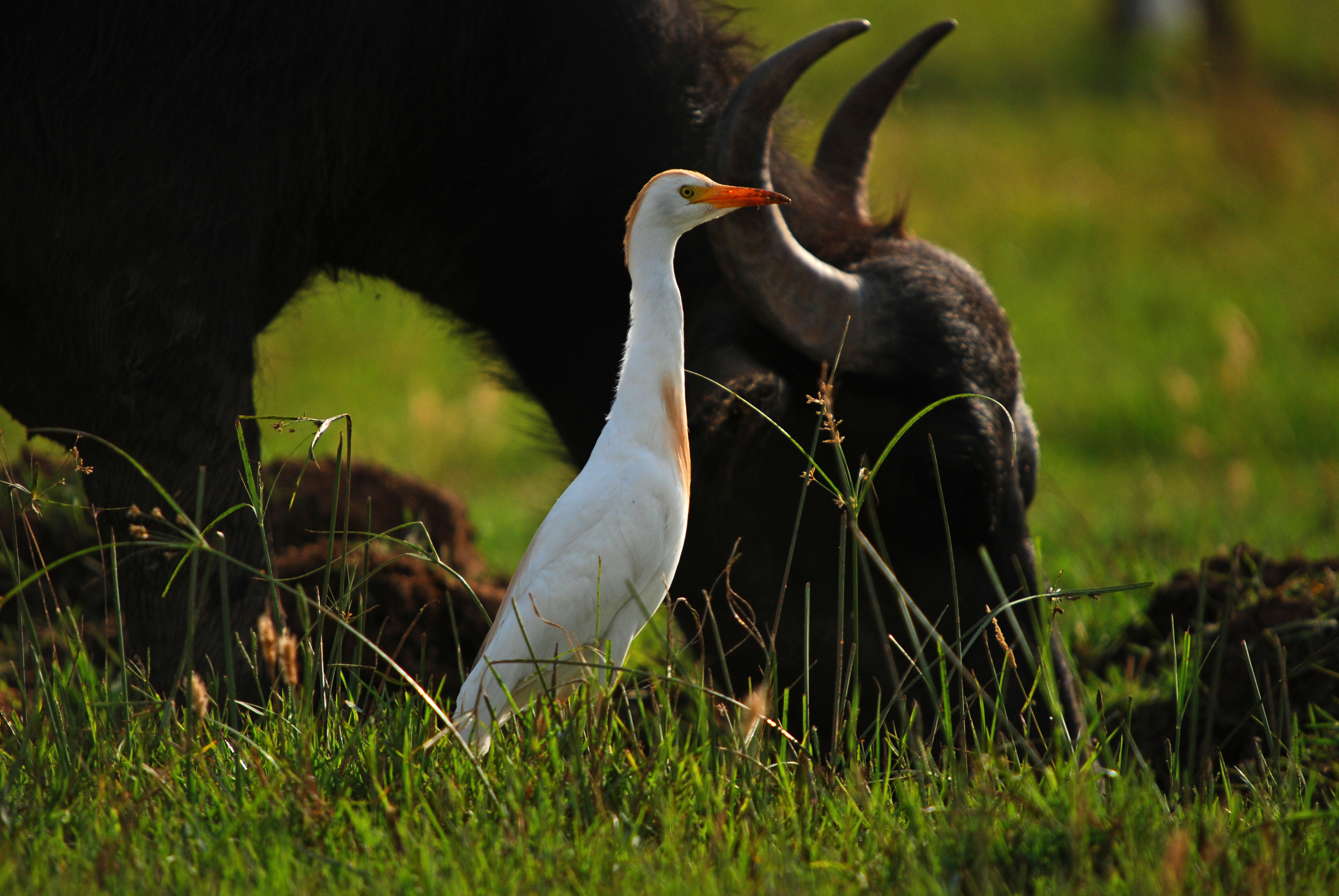 Cattle egret